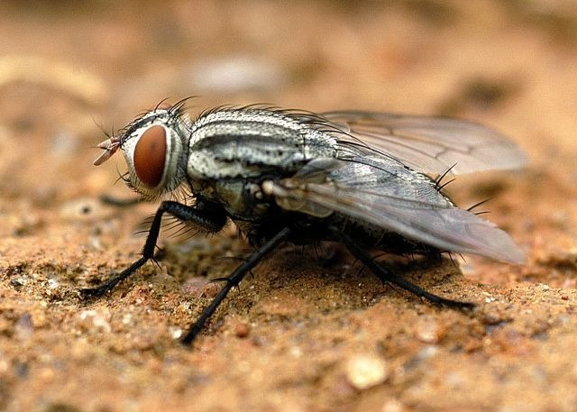 Sarcophagid fly, Bannerghatta, India